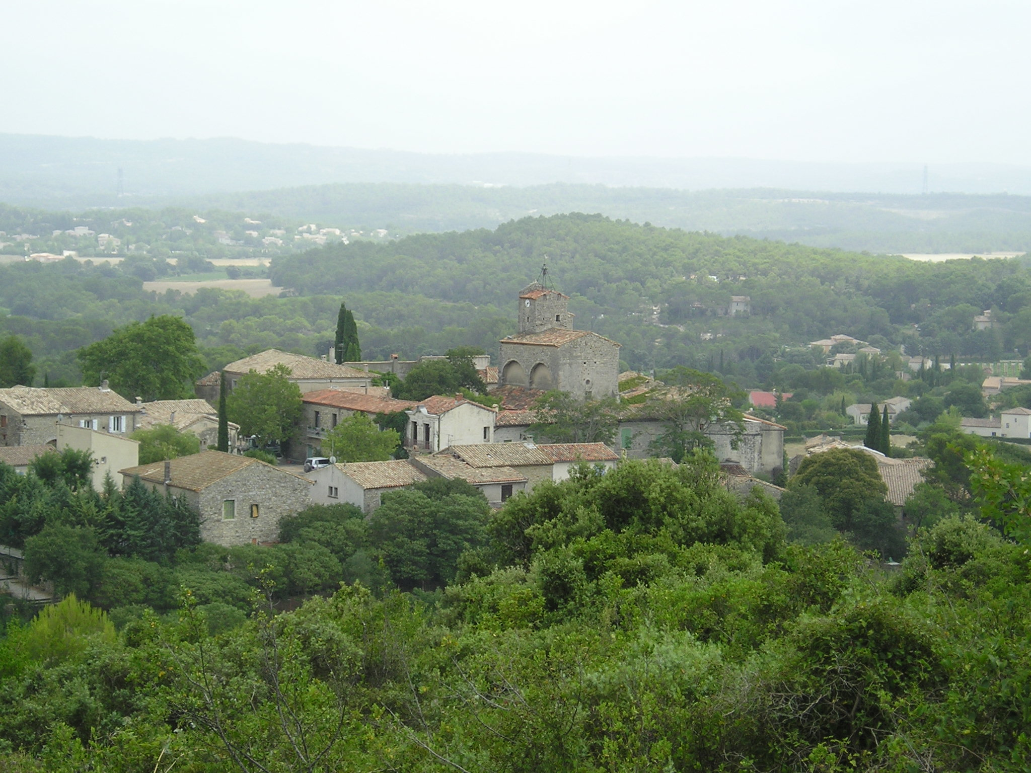 In Hérault, France, the old village of Saint-Jean-de-Cuculles and its church viewed from North-North-West (300 meters). In the background, aligned with the church, the boised hill of "le Bosquet" (125 meters altitude at 1.5 kilometer from photographer localted at 150-155 meters) ; and on the left, the village of Le Triadou.